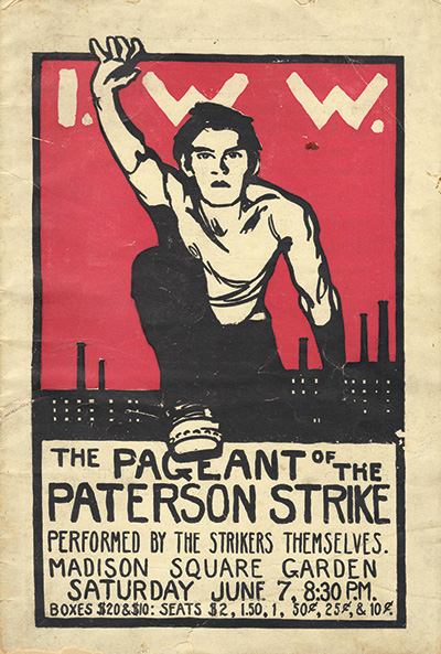 Industrial Workers of the World (IWW) pageant poster of the Paterson strike that was performed at Madison Square Garden on June 7, 1913. Classic IWW poster of industrial worker rising out of the factories in the background with hand raised forward. In the place of join the one big union, there is the description of when and where the Patterson strike pageant will take place.